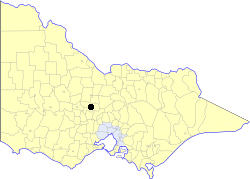 Location of the City of Castlemaine within Victoria.